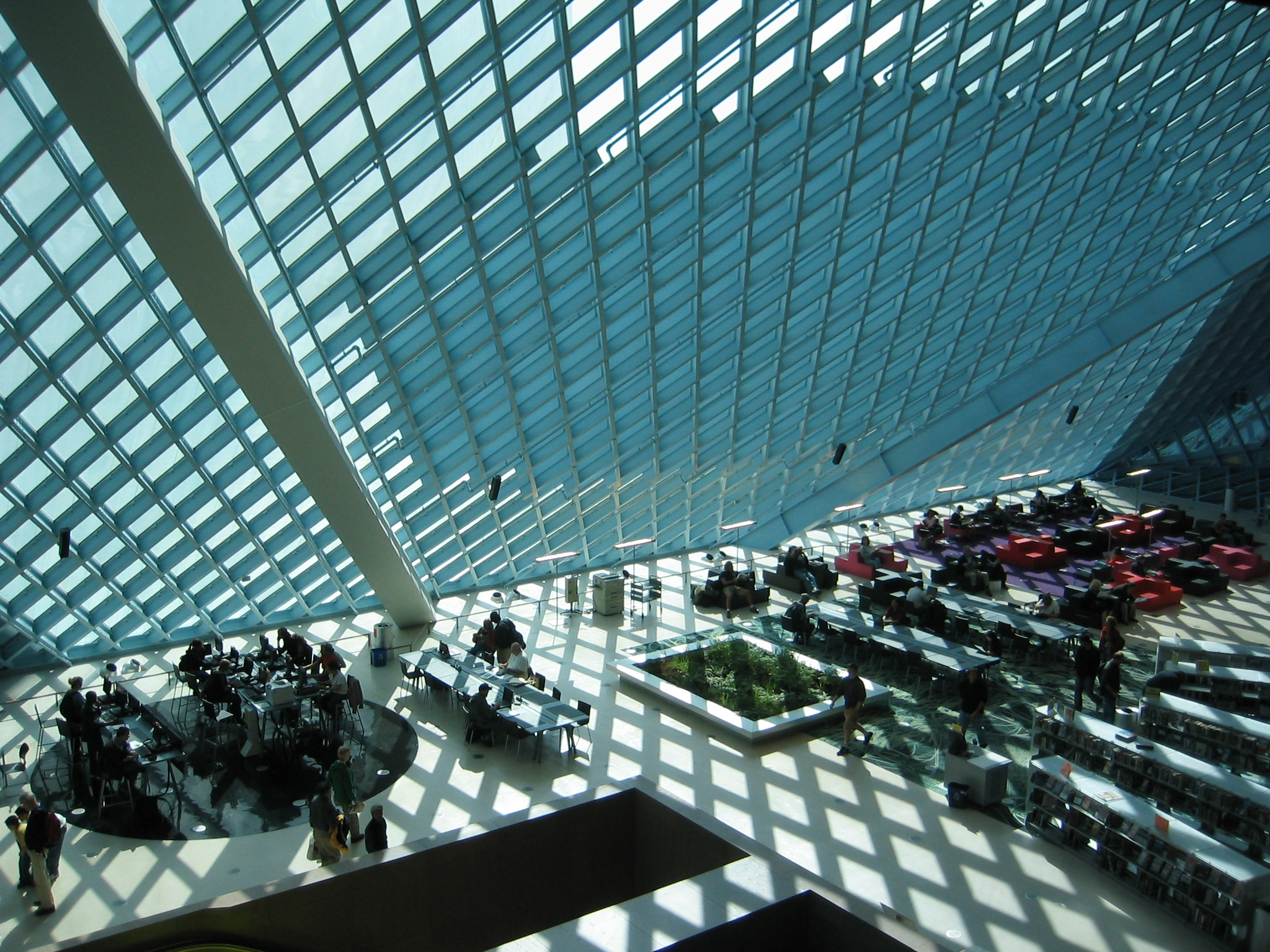 Seattle Public Library, by Rem Koolhaas